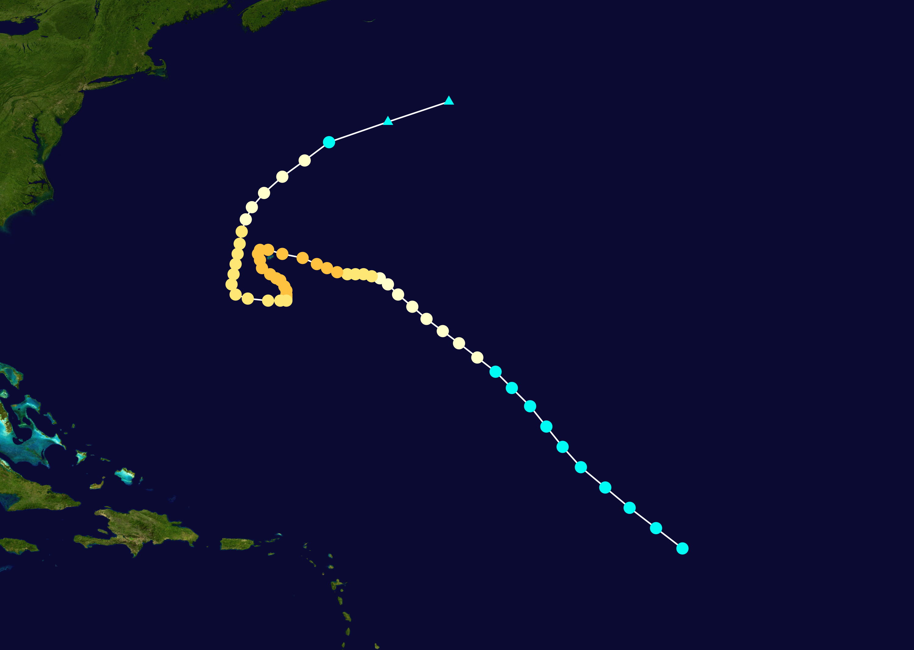 1915 Atlantic hurricane 3 track. Uses the color scheme from the Saffir-Simpson Hurricane Scale.